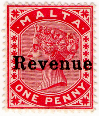 1899 1d carmine red revenue stamp of Malta